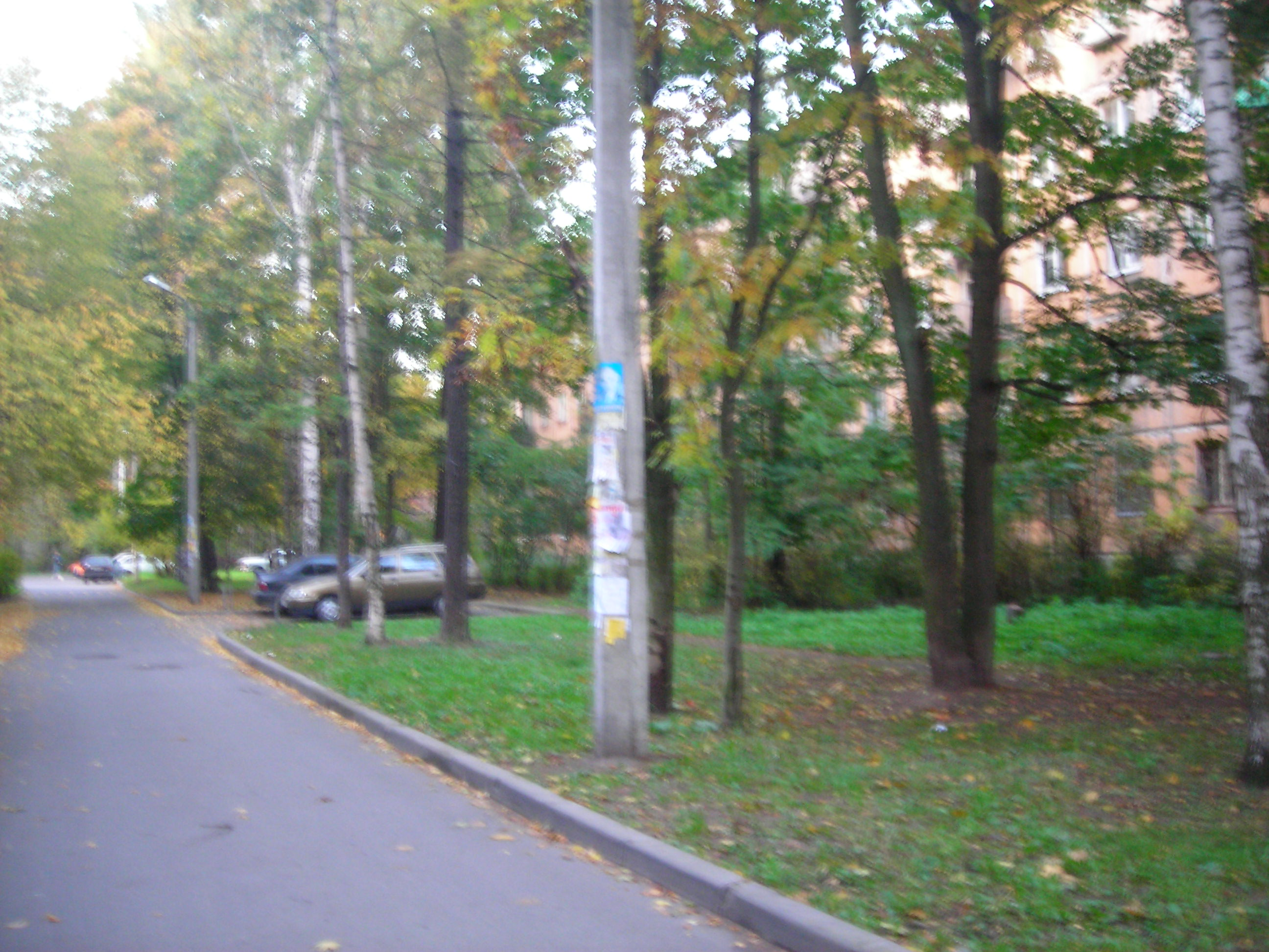 court of Tikhoretsky prospect, St. Petersburg